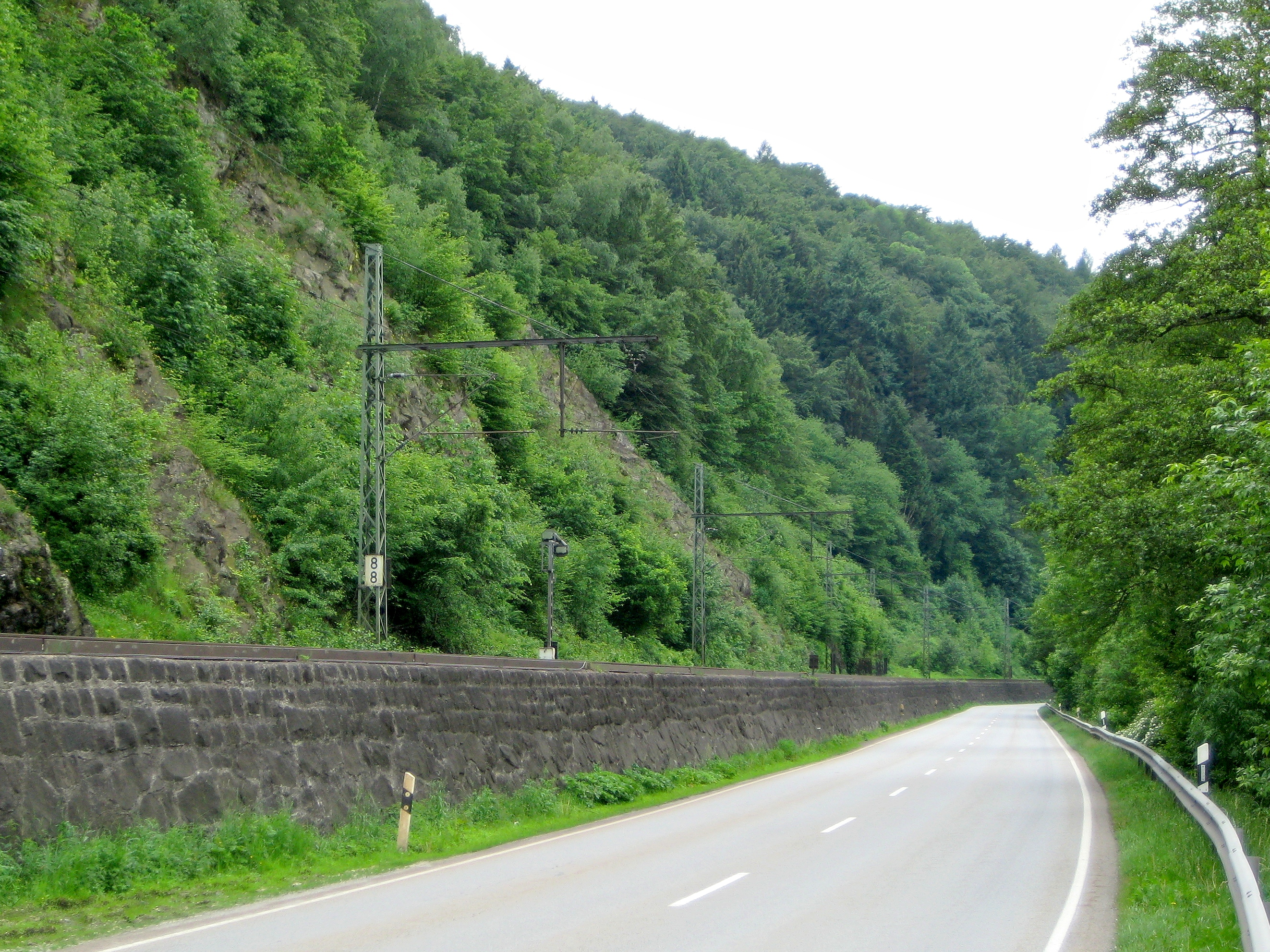 Rock face “Löwenwand” near Passau with federal road B 8 and Regensburg–Passau railway